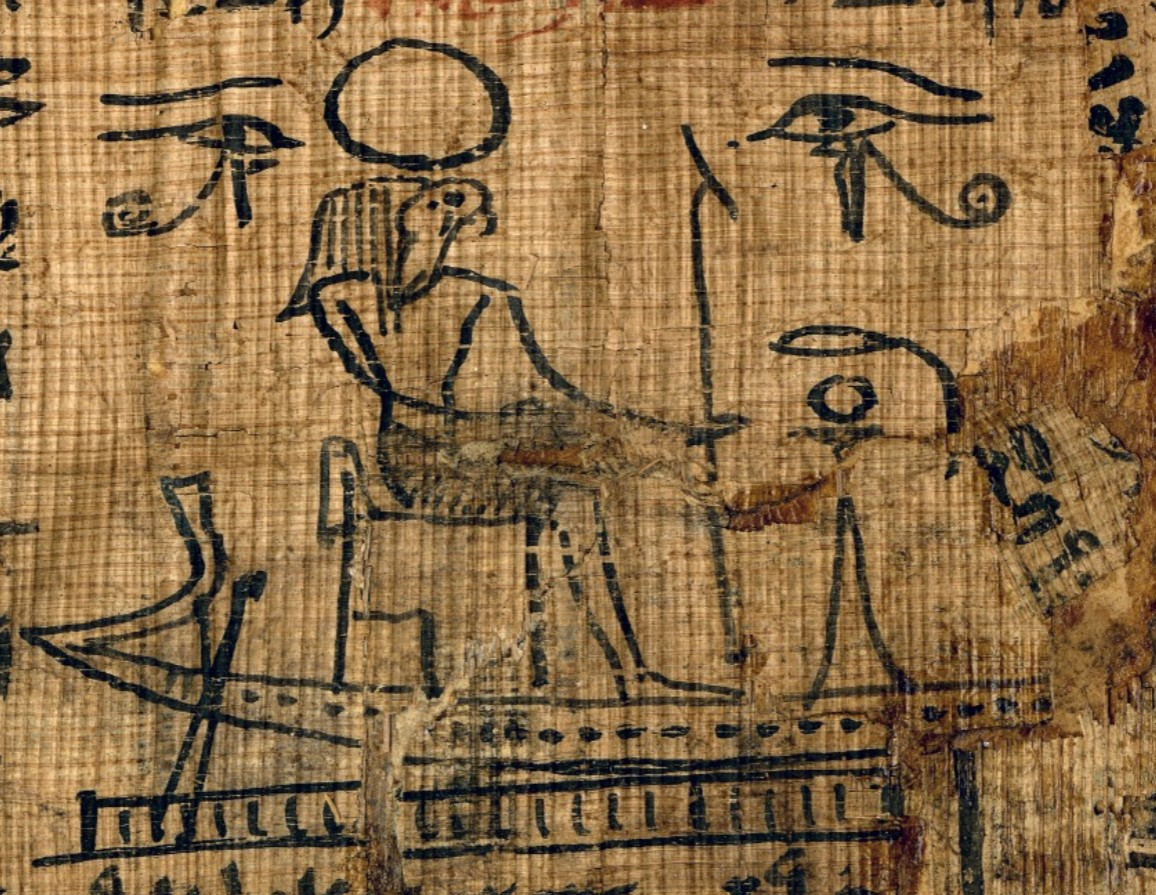 A vignette from the Book of the Dead of TaSheritMin, see Joseph Smith Papyri. The God Re travels through the universe on his solar barque, flanked by two wadjet eye.